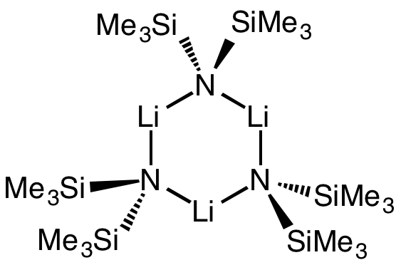 ChemDraw of LiN(tms)2 trimer